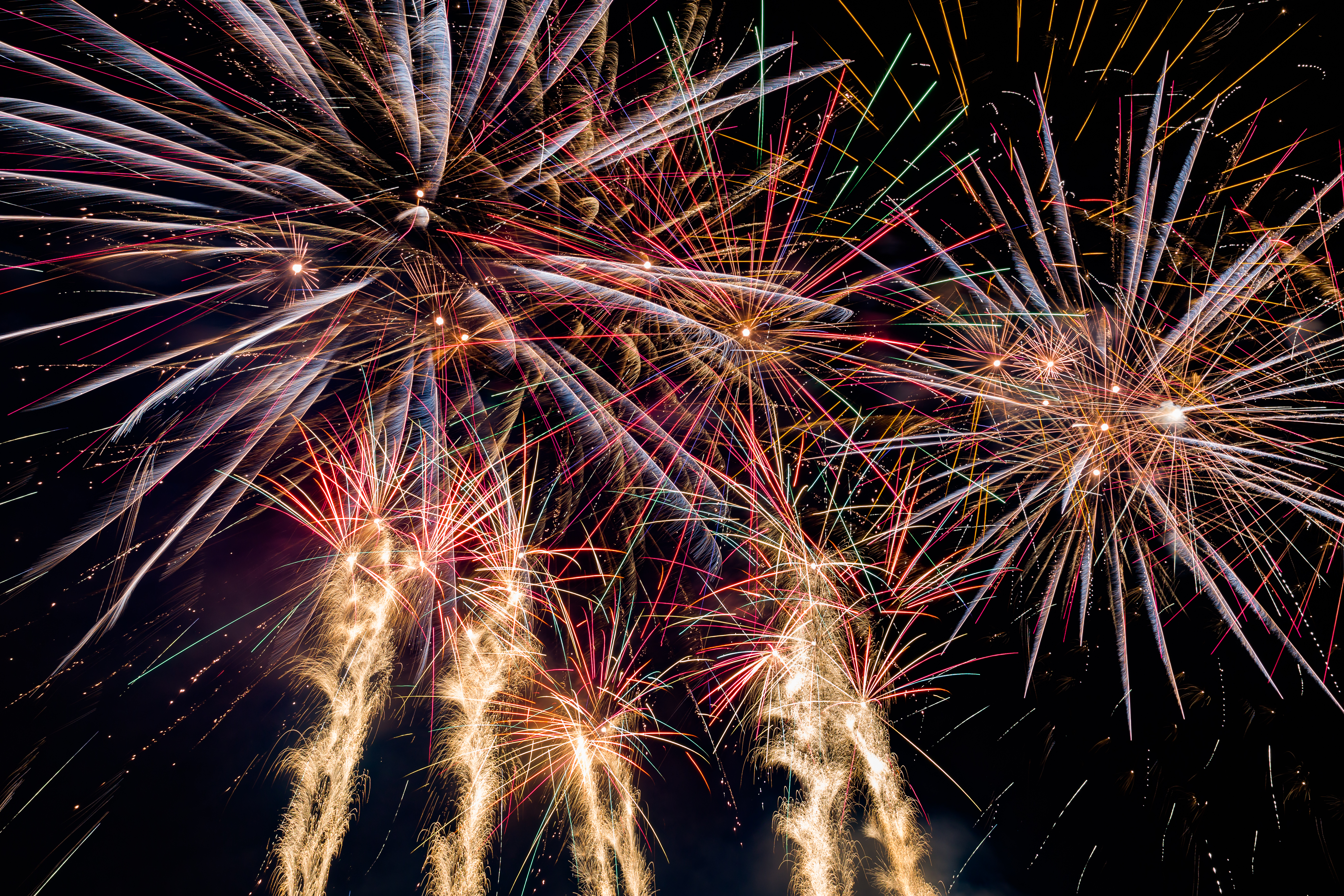 Fireworks in Annecy-le-Vieux, France.